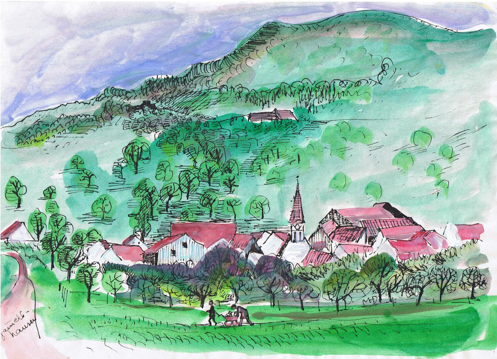 Gammelshausen, county Göppingen, Margret Hofheinz-Döring